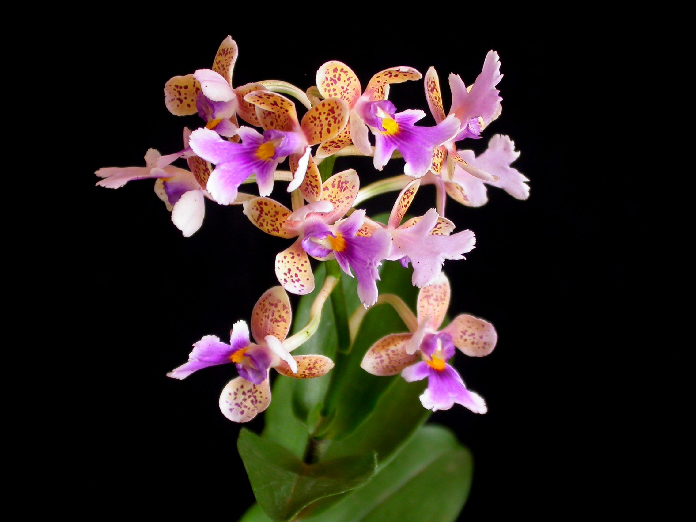 Oerstedella schumanniana